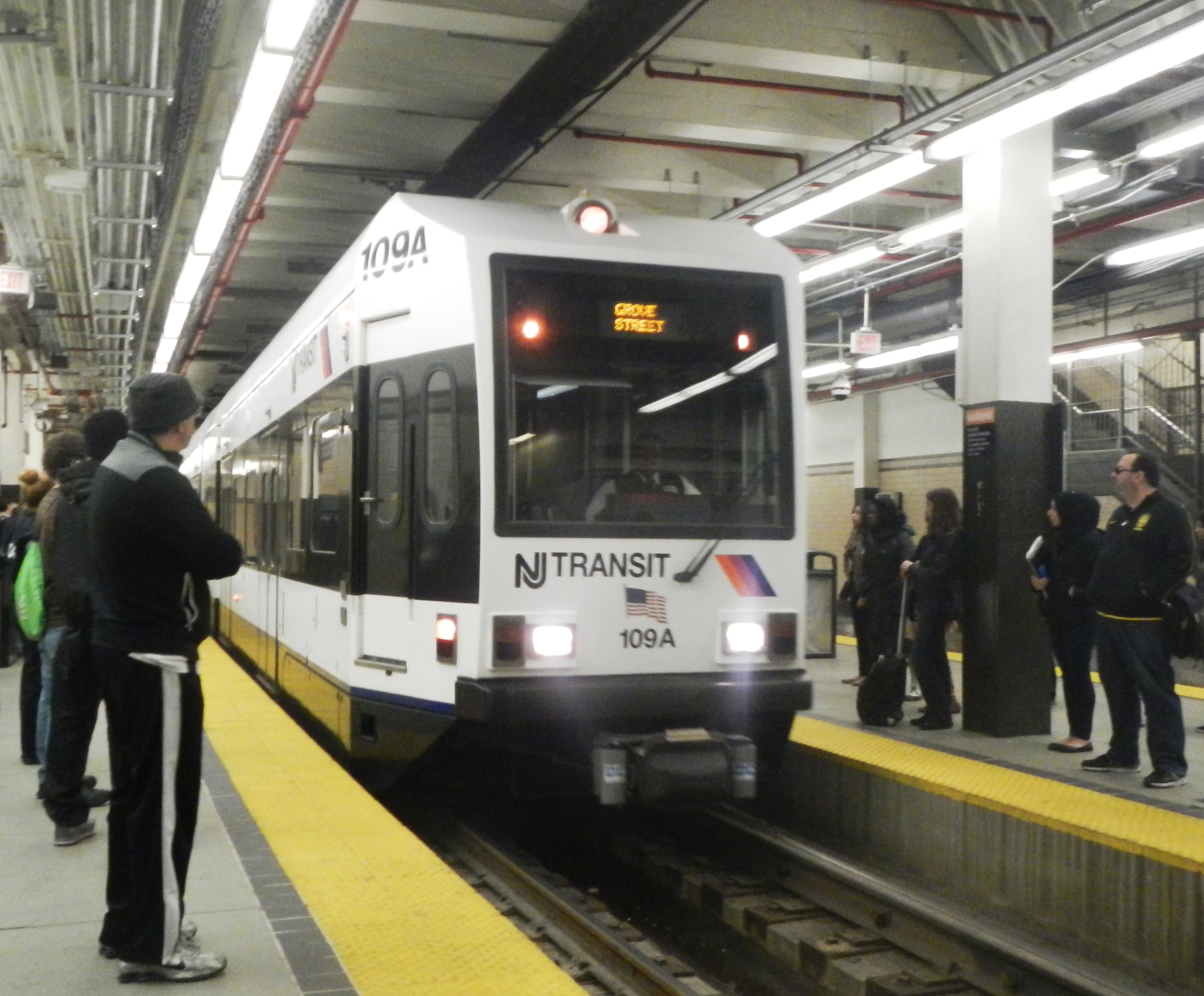 Westbound car arrives at Newark.